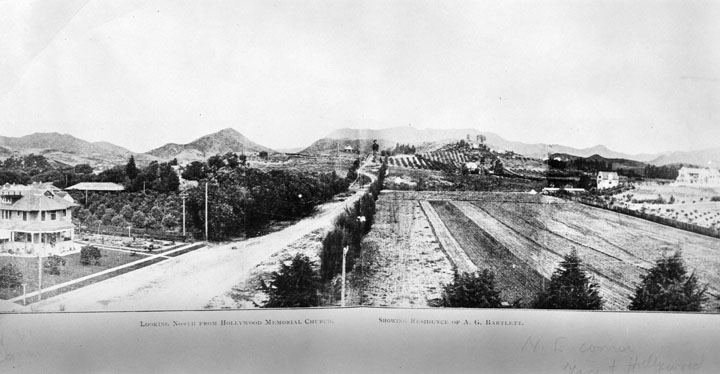 Hollywood and Vine, 1906. The picture is looking North up Vine St. from Hollywood Blvd. Original caption: “Looking north from Hollywood Memorial Church, showing residence of A.G. Bartlett. The church building is not visible. The photograph shows a large residence on the left with orchards and fields all around.”